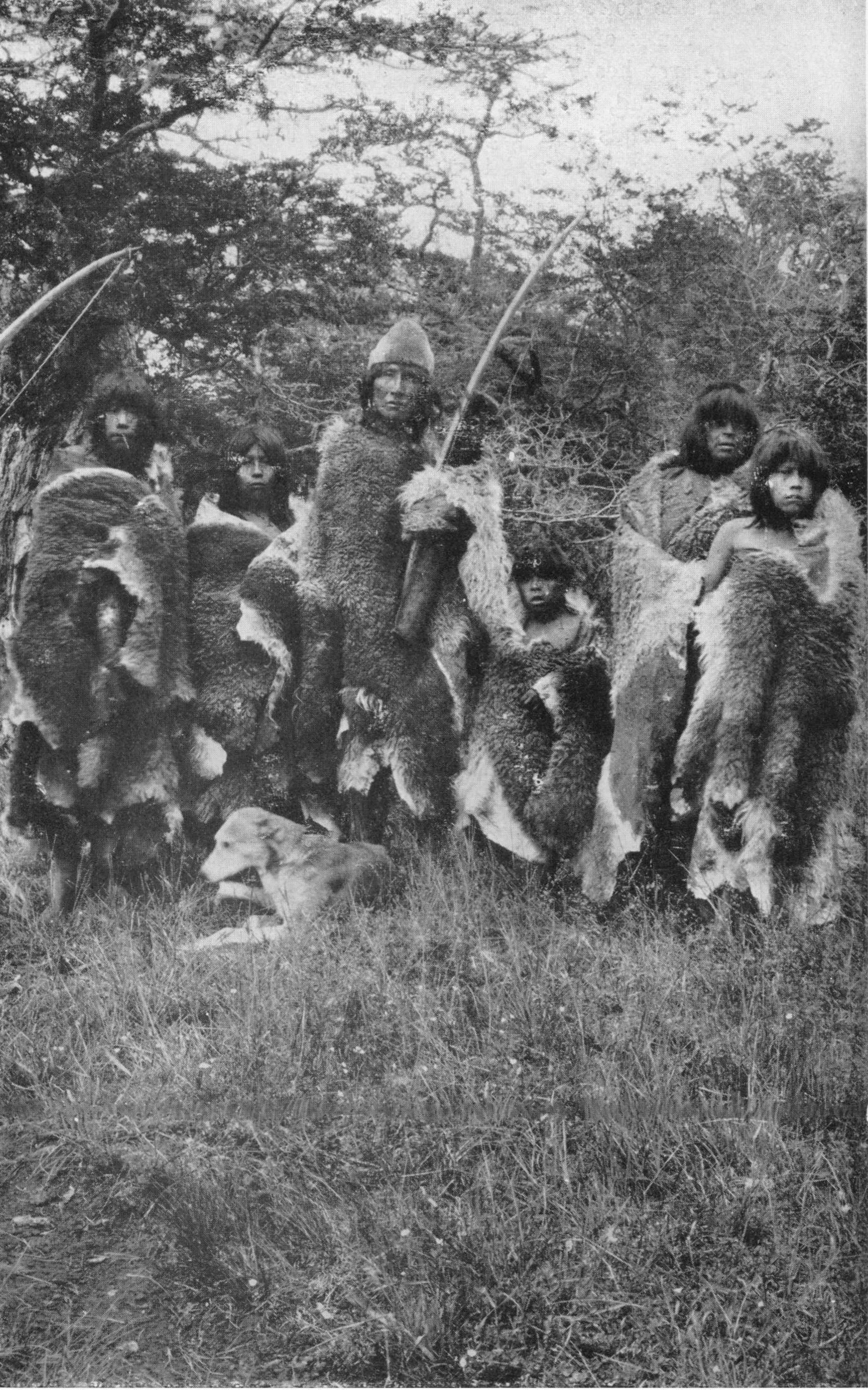 Fig. 10— Onas, Tierra del Fuego. These primitive folk still live the life of the Stone Age. (Photo copyright by Charles Wellington Furlong.)